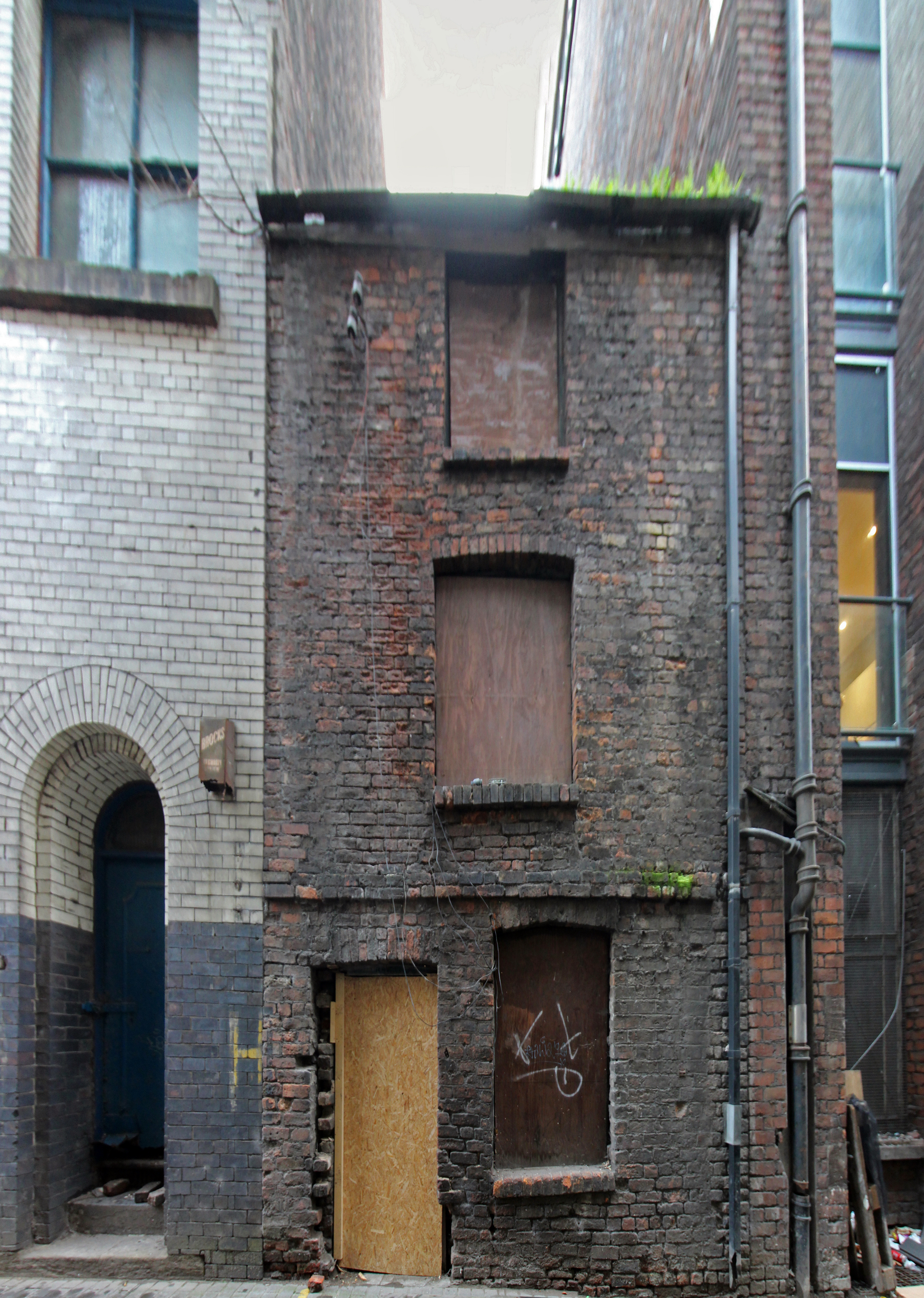 Front elevation of 10 Hockenhall Alley.